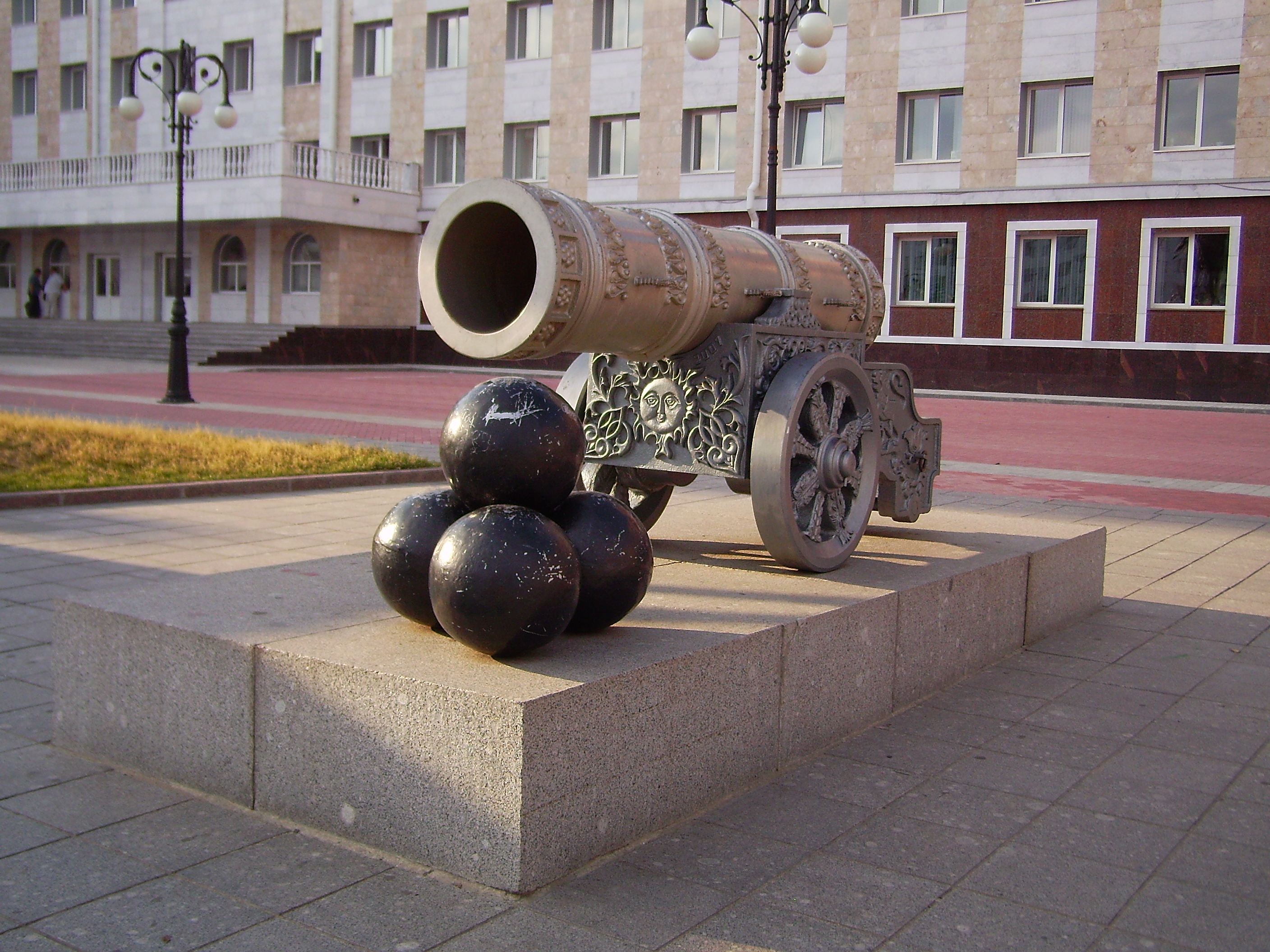 copy of Tsar_Cannon in Yoshkar-Ola